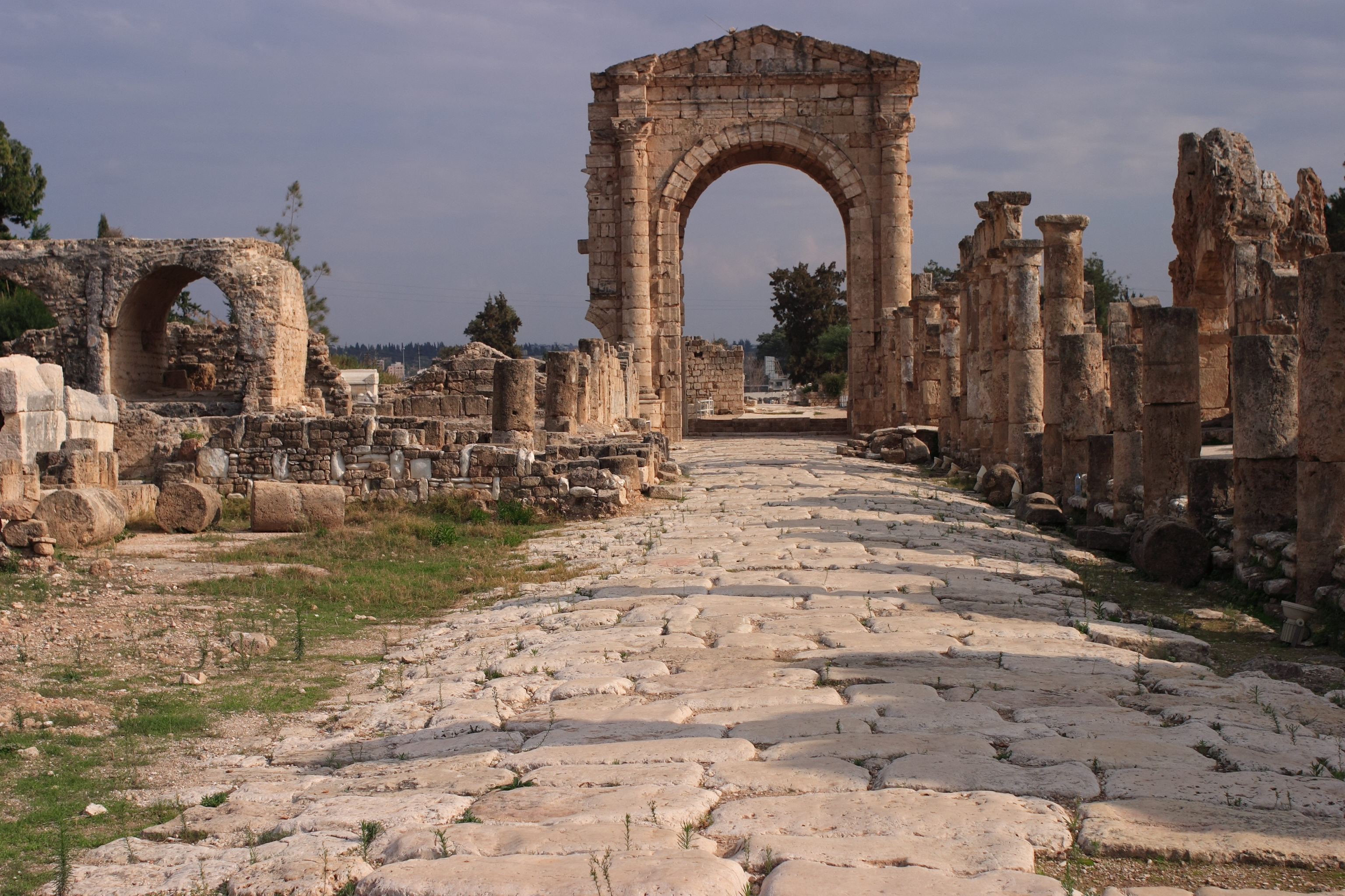 Tyre (ancient town)